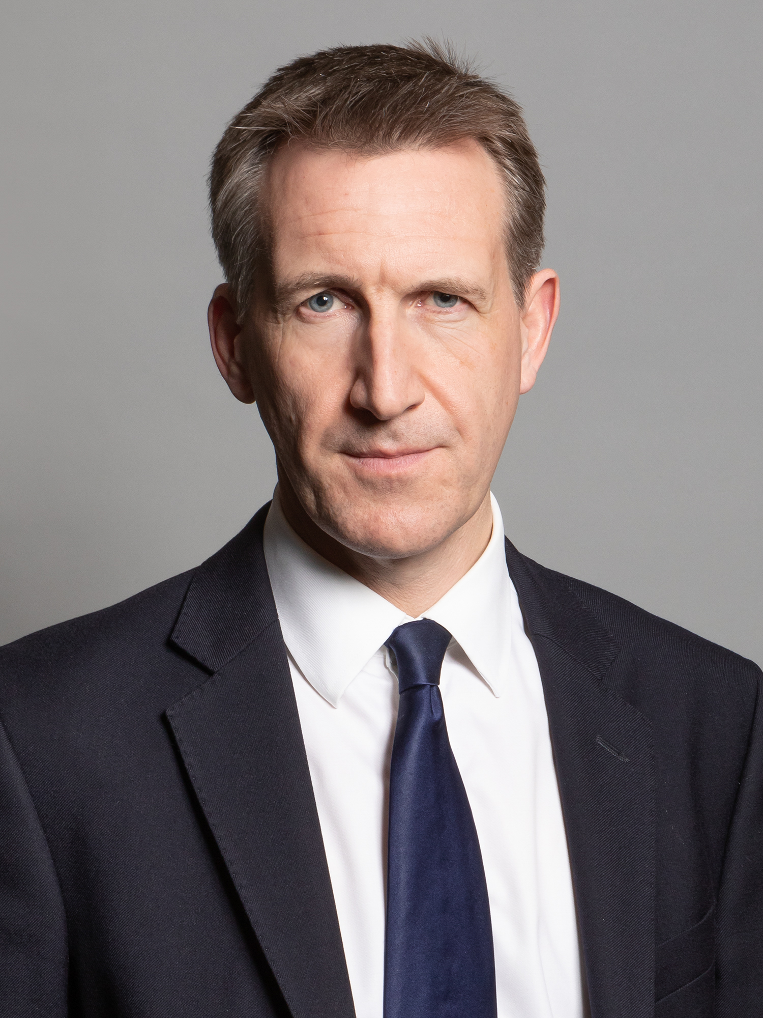 Official portrait of Dan Jarvis MP 3×4 portrait of Dan Jarvis